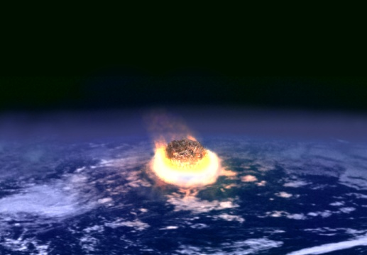 Description: Illustration of an impact event. Source Made by Fredrik. Cloud texture from public domain NASA image. This file is in the public domain in the United States because it was solely created by NASA. NASA copyright policy states that "NASA material is not protected by copyright unless noted". (See Template:PD-USGov, NASA copyright policy page or JPL Image Use Policy.) Warnings: Use of NASA logos, insignia and emblems is restricted per U.S. law 14 CFR 1221. The NASA website hosts a large number of images from the Soviet/Russian space agency, and other non-American space agencies. These are not necessarily in the public domain. Materials based on Hubble Space Telescope data may be copyrighted if they are not explicitly produced by the STScI.[1] See also PD-Hubble and Cc-Hubble . The SOHO (ESA & NASA) joint project implies that all materials created by its probe are copyrighted and require permission for commercial non-educational use. [2] Images featured on the Astronomy Picture of the Day (APOD) web site may be copyrighted. [3] The National Space Science Data Center (NSSDC) site has been known to host copyrighted content. Its photo gallery FAQ states that all of the images in the photo gallery are in the public domain "Unless otherwise noted."